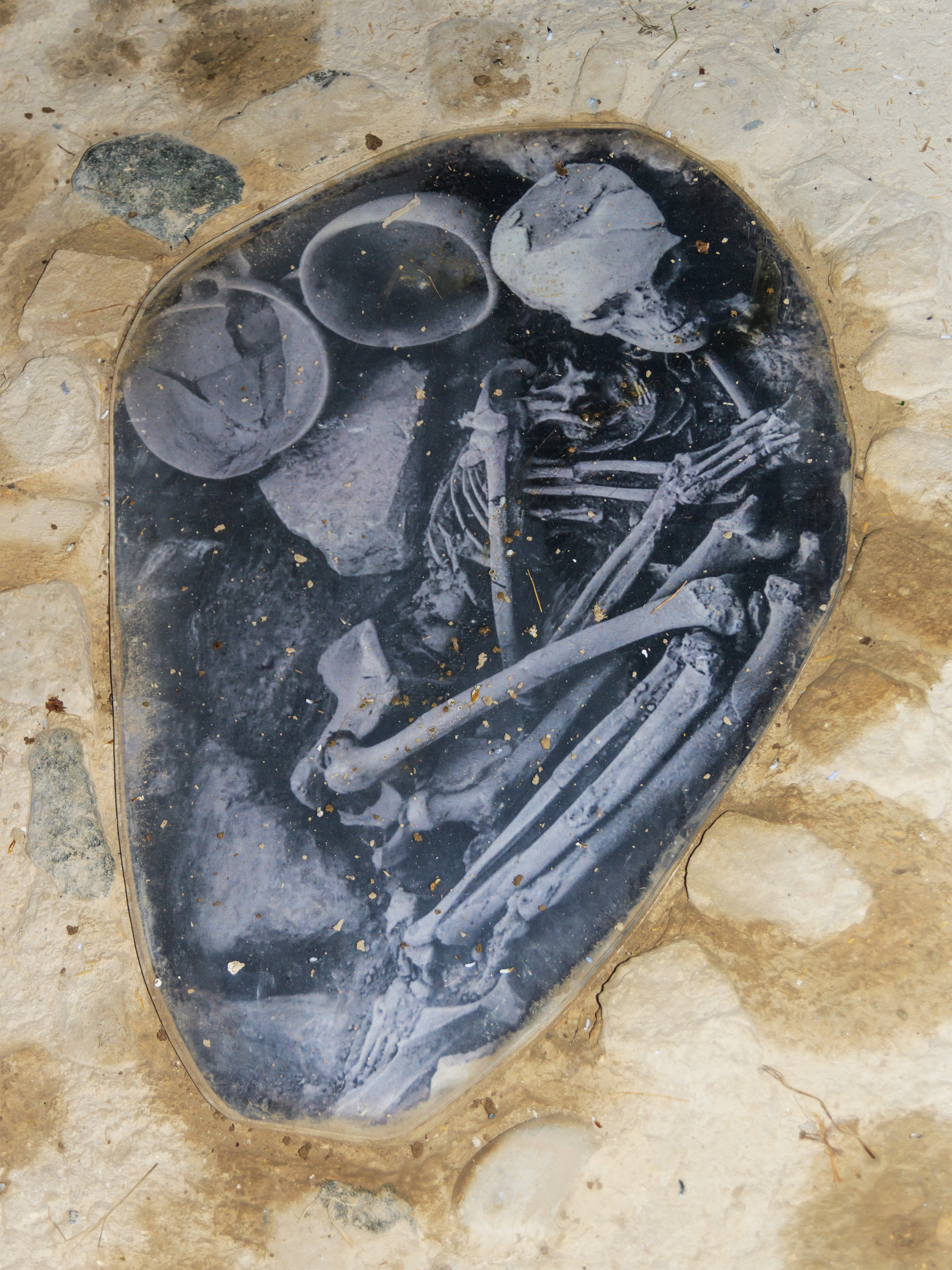 Neolithic Archaeological Site of Khirokitia near Larnaca, Cyprus